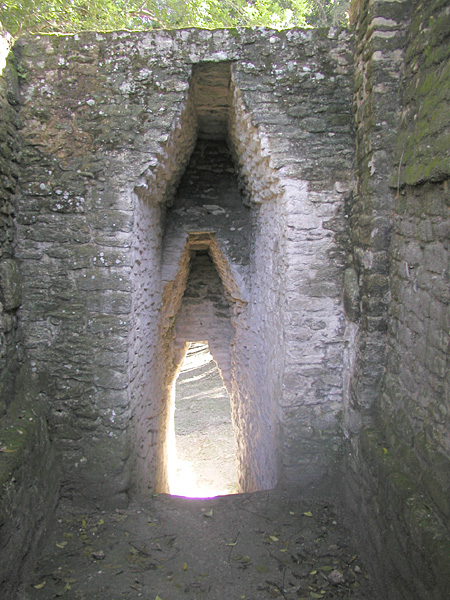 A vaulted passageway, Cahal Pech, Belize. Image taken by Clark Anderson/Aquaimages.